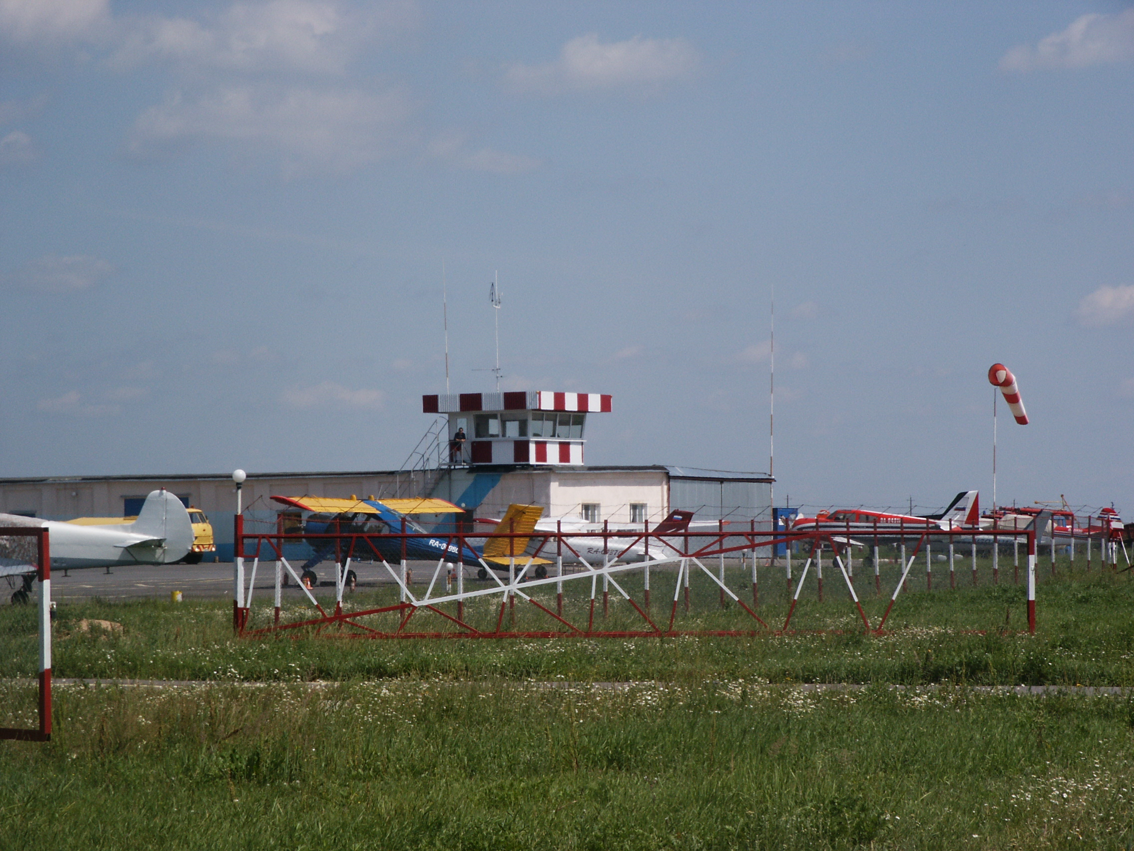 Severka airport tower